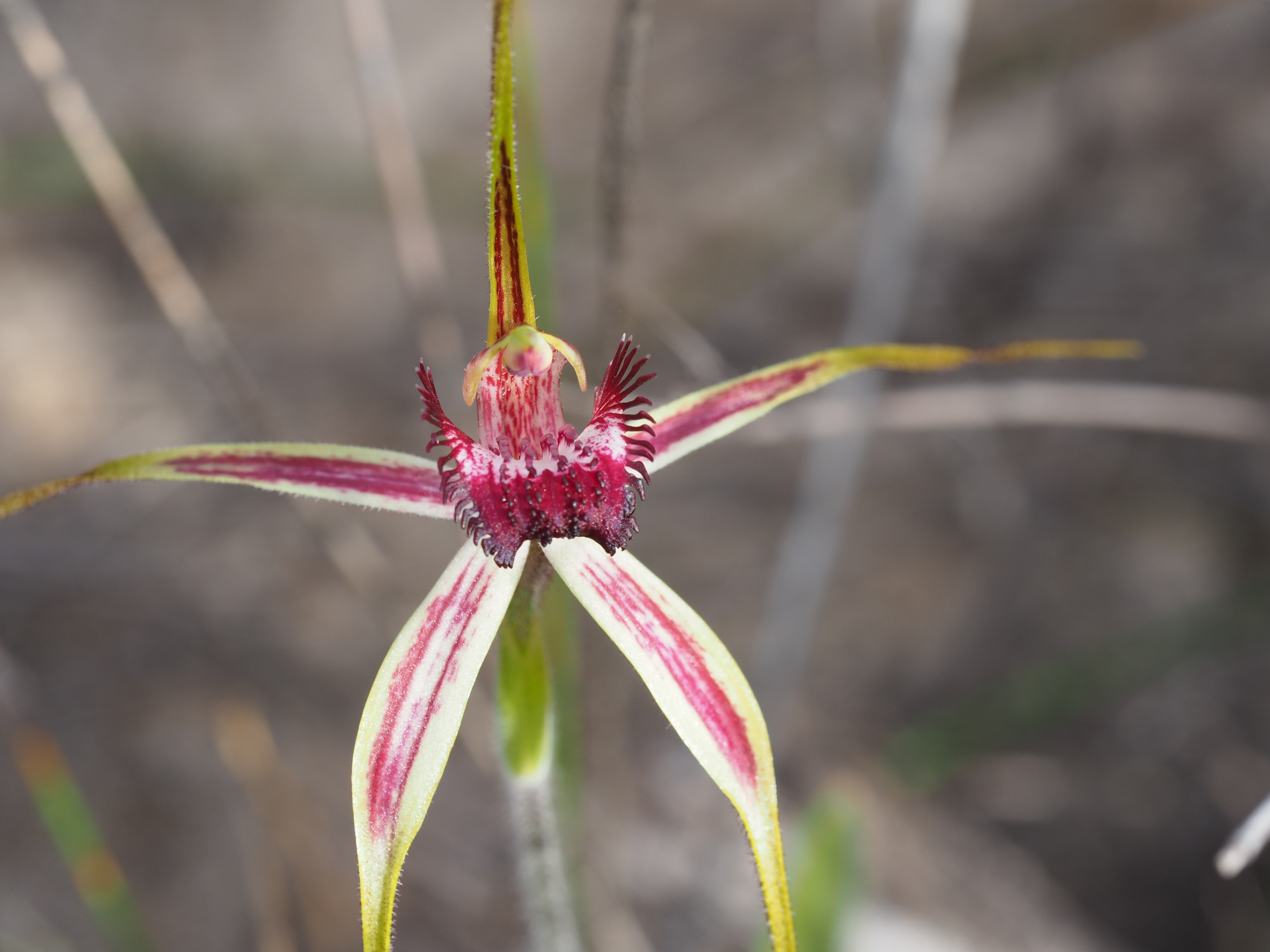 Caladenia lorea growing on the Coorow-Greenhead Road near the Halfway Hill Roadhouse